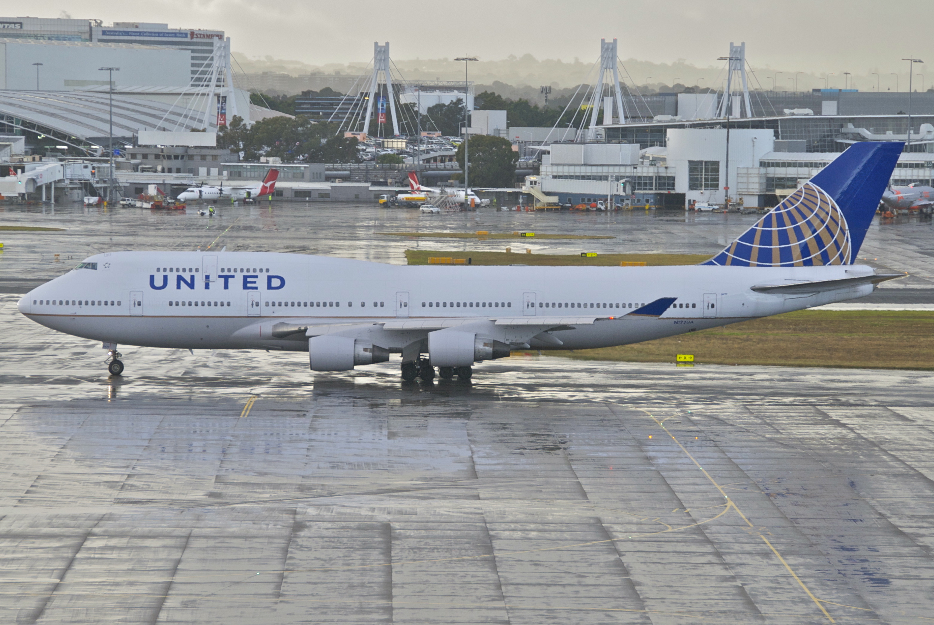 United Airlines Boeing 747-400; N177UA@SYD;06.07.2012/661bs